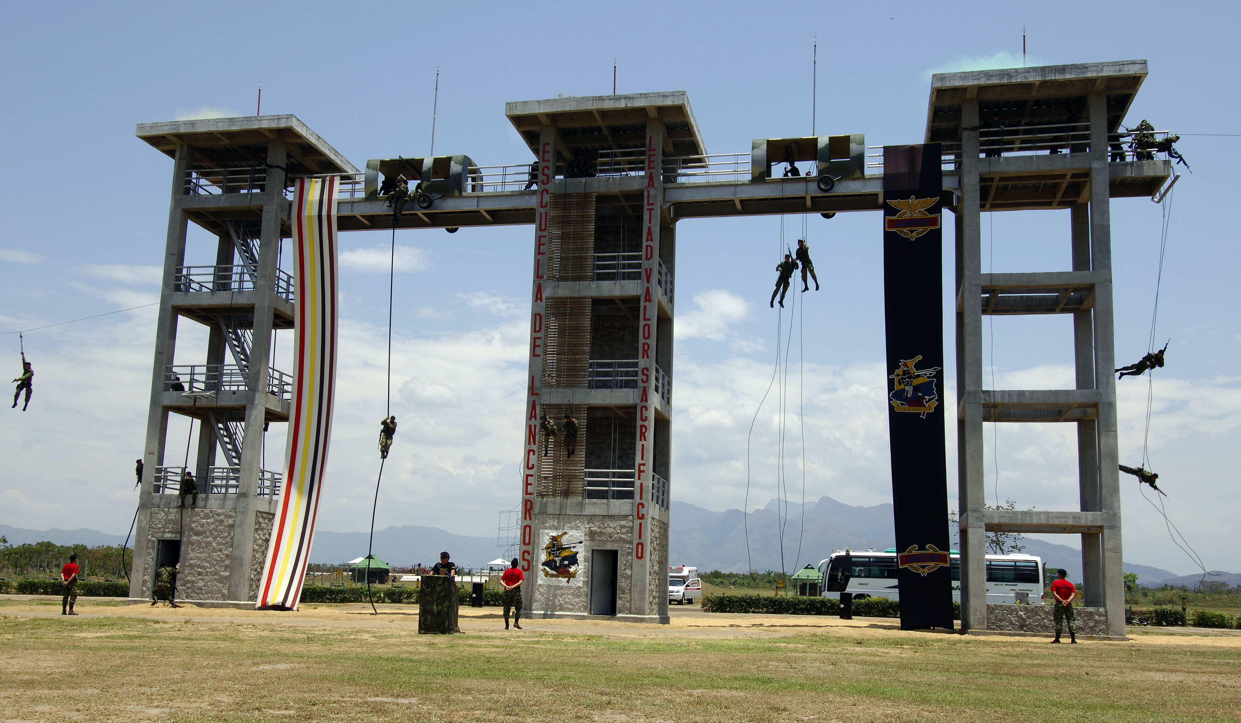 Members of Colombian special forces conduct a demonstration for Secretary of Defense Robert M. Gates during his tour of Tolemaida Air Base in Bogota, Colombia, Oct. 3, 2007. DoD photo by Tech. Sgt. Jerry Morrison, U.S. Air Force. (Released)